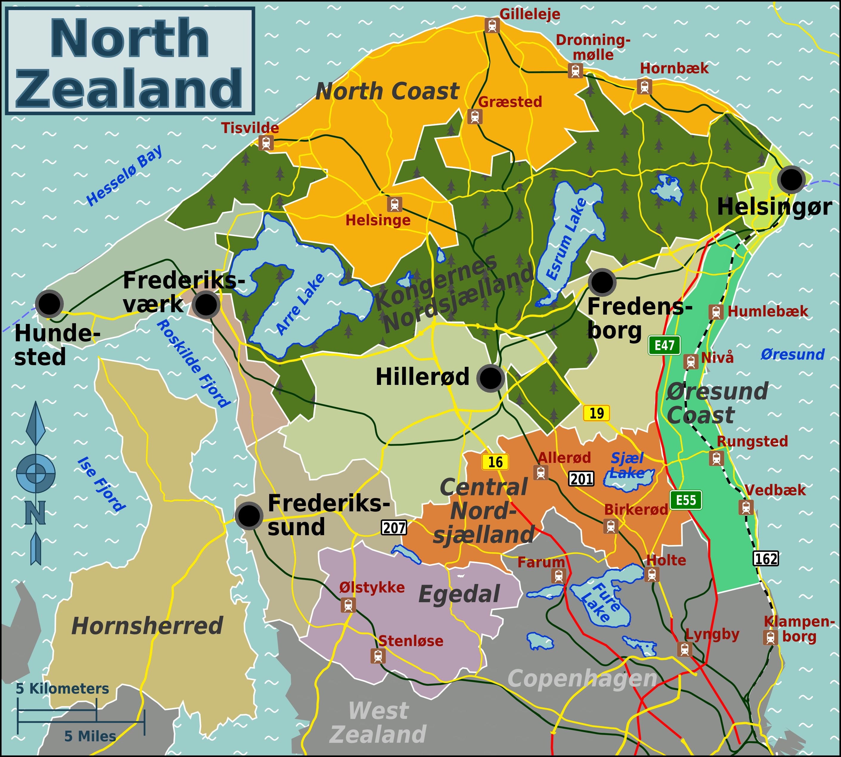 Zealand.